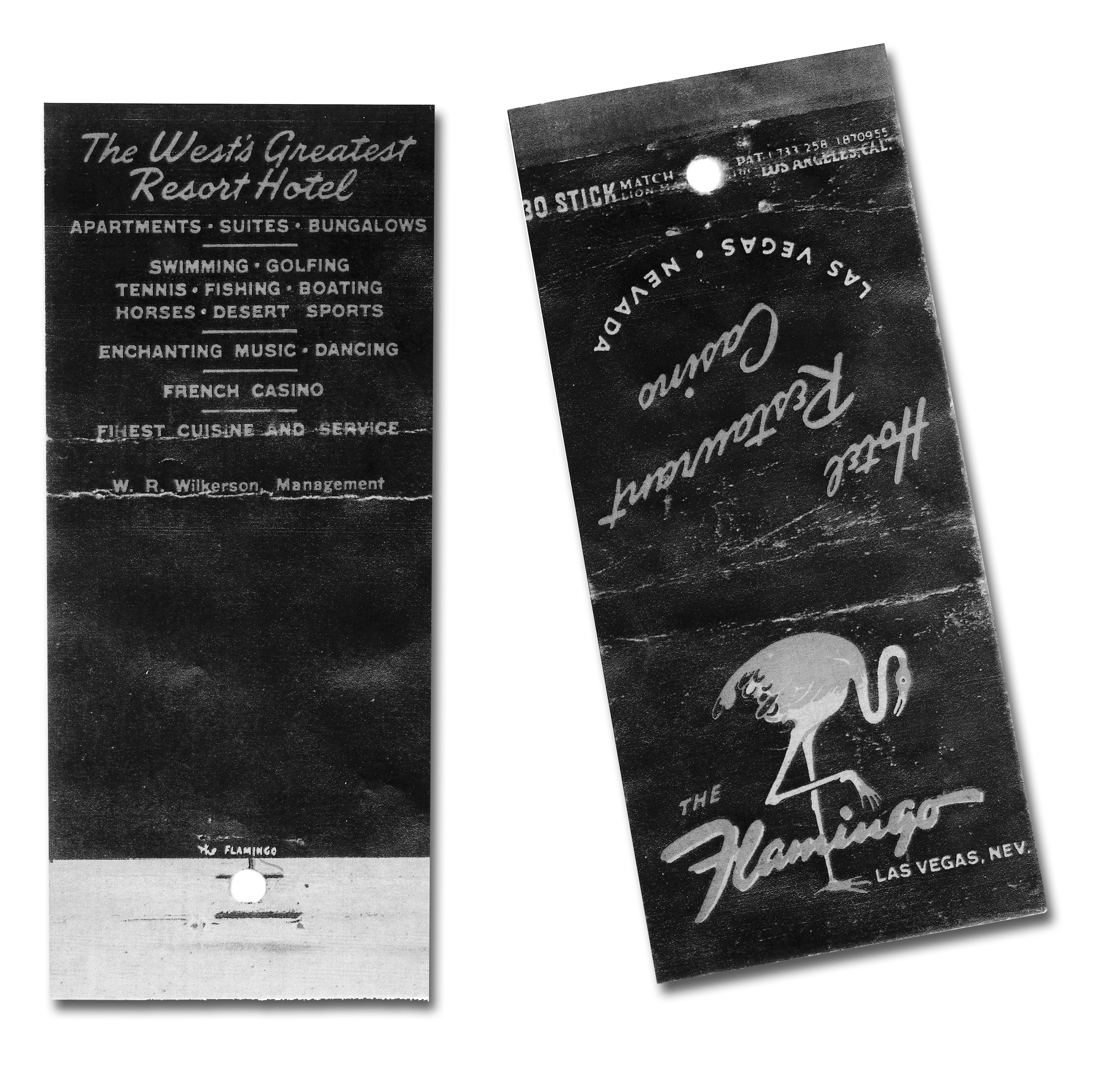 Flamingo Matchbook